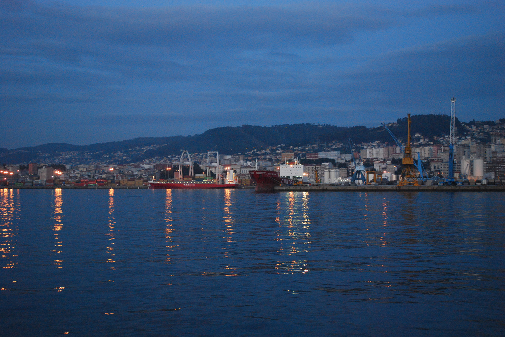 Teis (Ria of Vigo).